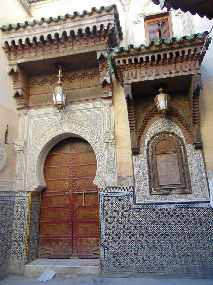 Zaouia Sidi Ahmed Tijani